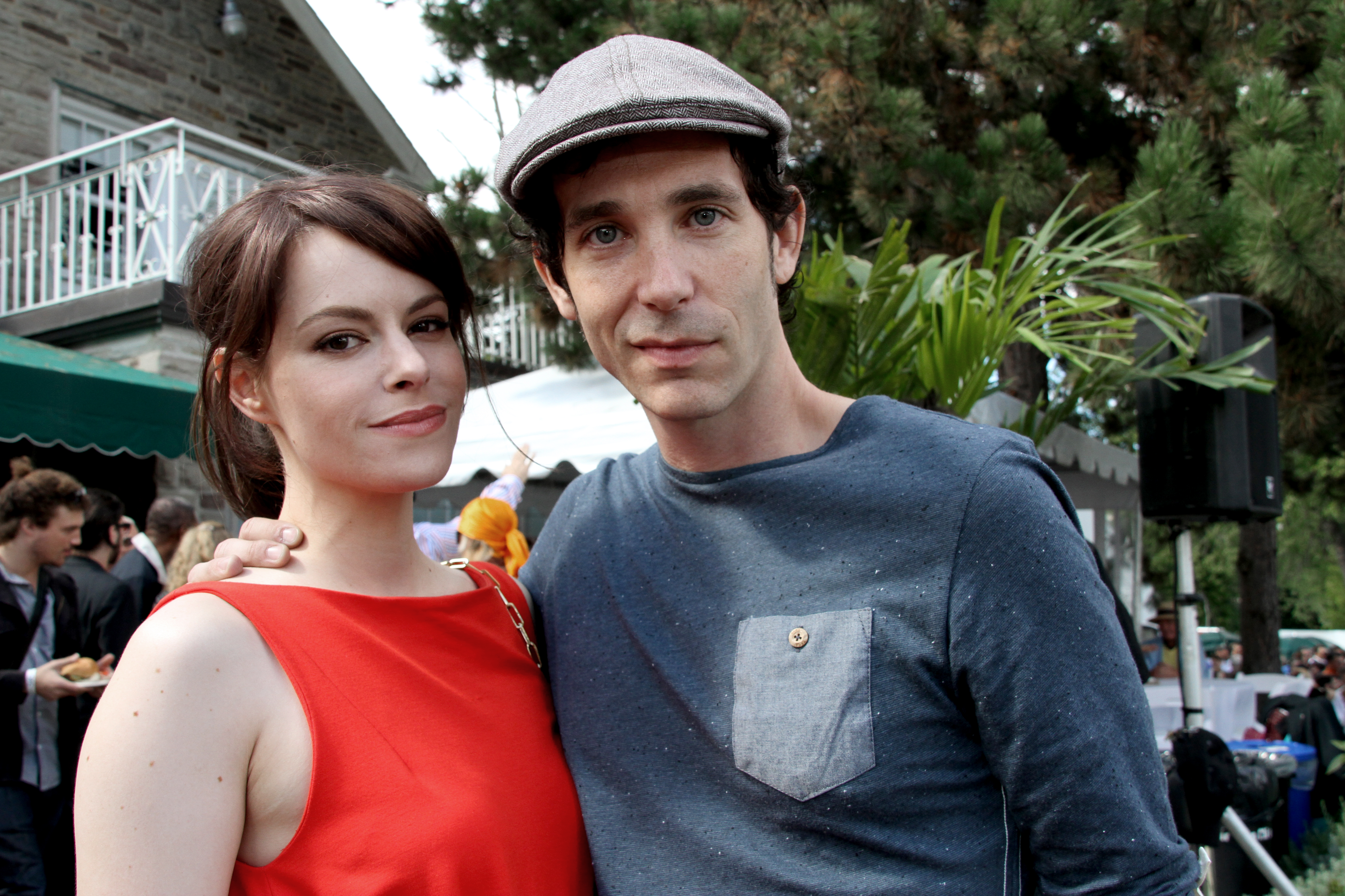 Guest at the Canadian Film Centre (CFC) Annual BBQ on Sept. 9, 2012 in Toronto, Ontario in celebration of Canadian Talent at the 2012 Toronto International Film Festival. Learn more about the Annual BBQ by visiting To find out more about the Canadian Film Centre, please visit: Photo by Danilo Ursini